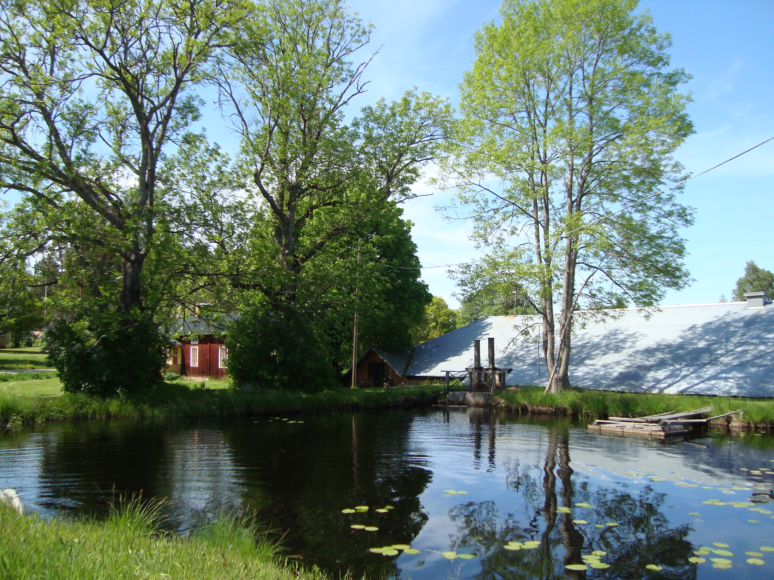 Old iron works of Gammelstilla, Hofors Municipality, Sweden